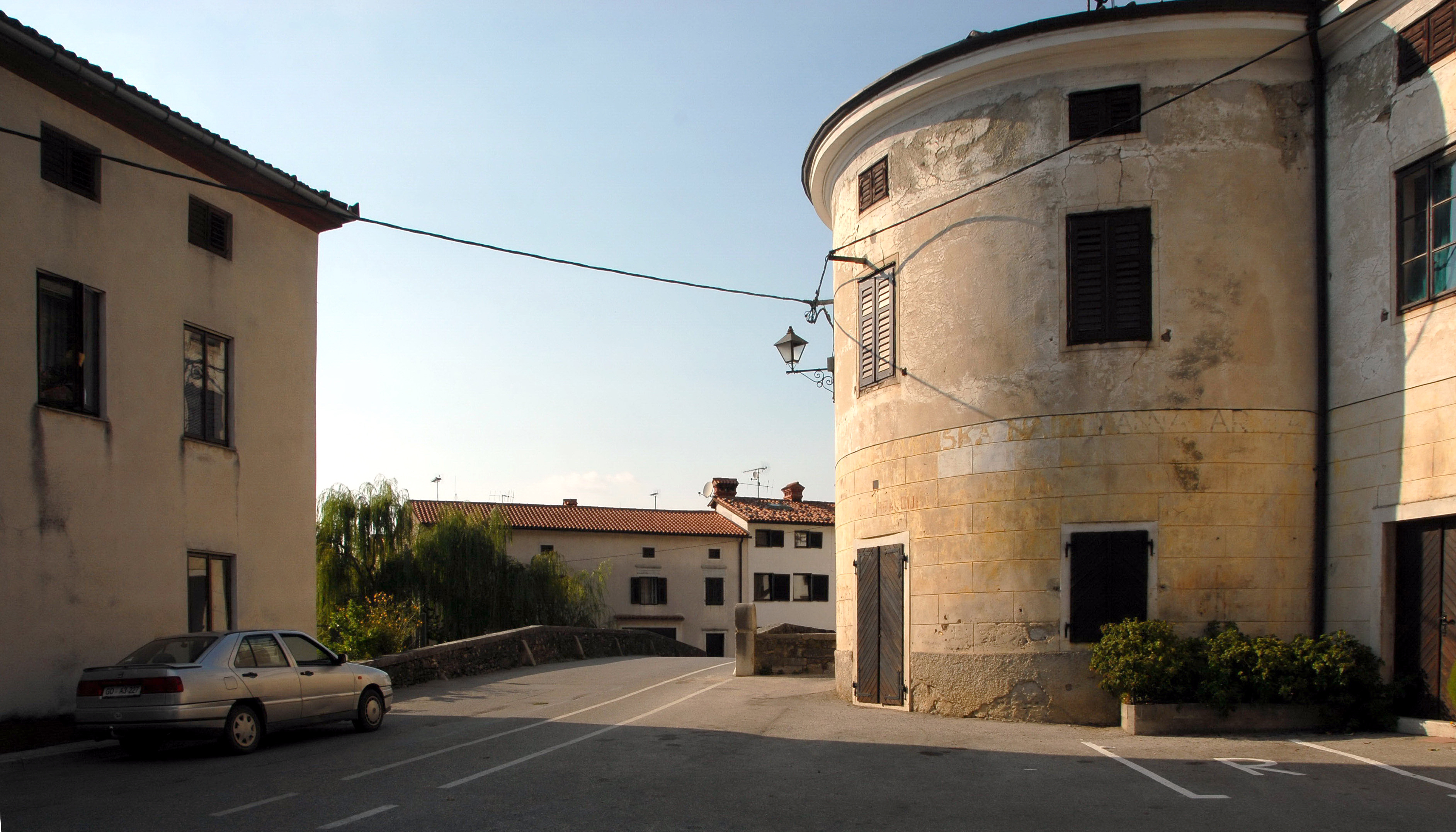 Tabor bridge across the river Vipava and Tabor fortress tower in Vipava, Goriška, Slovenia